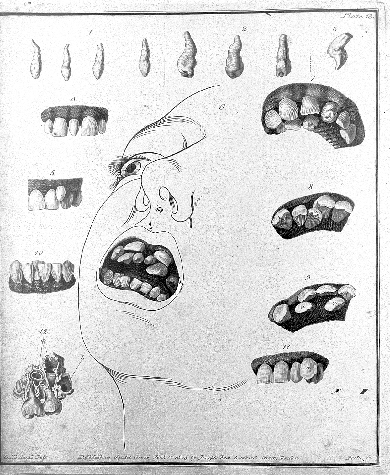 Supernumerary teeth Rare Books Keywords: teeth, diseases:1803; Dentistry; Joseph Fox; Alan Sterling Parks; G. Kirtland